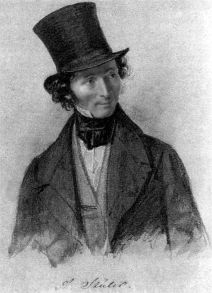 Friedrich August Stüler (1800–1865), Prussian architect and builder